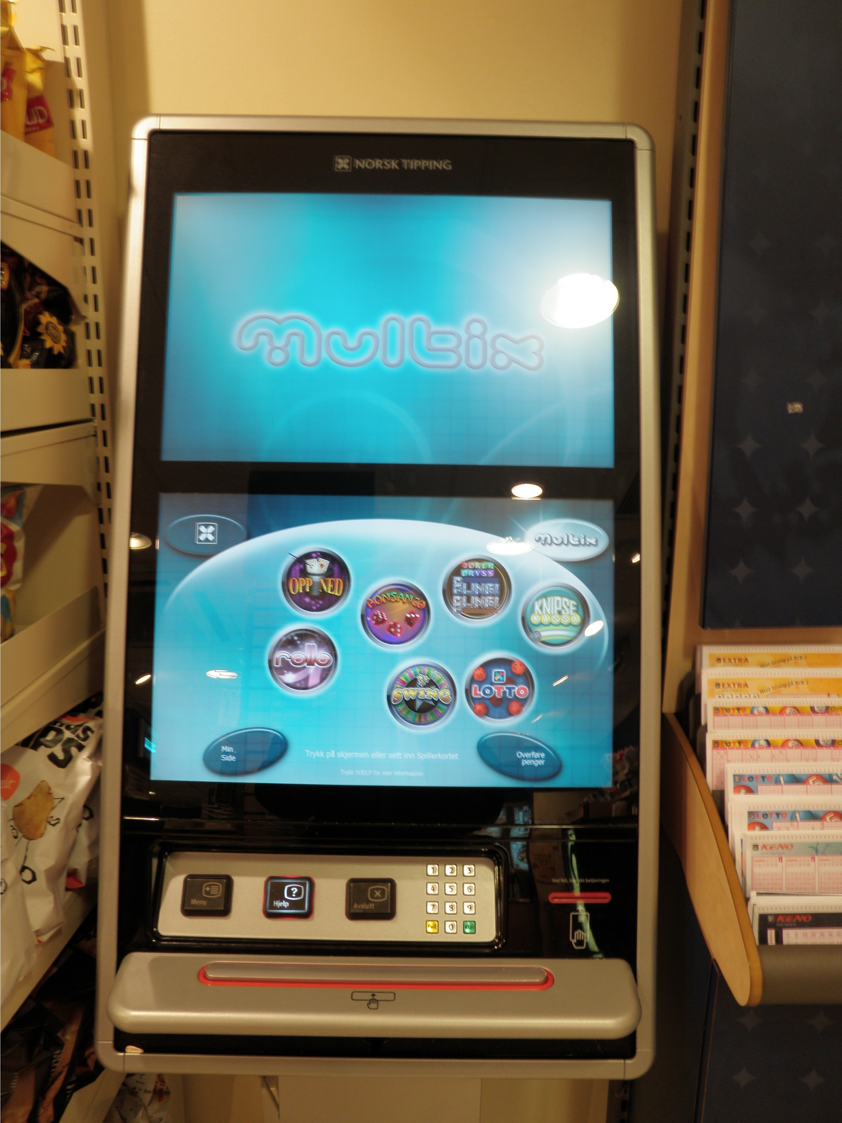 The new type of Norwegian slot machines, made to decrease gambling addiction. It does not take cash, and gives you a check instead of coins when you win.